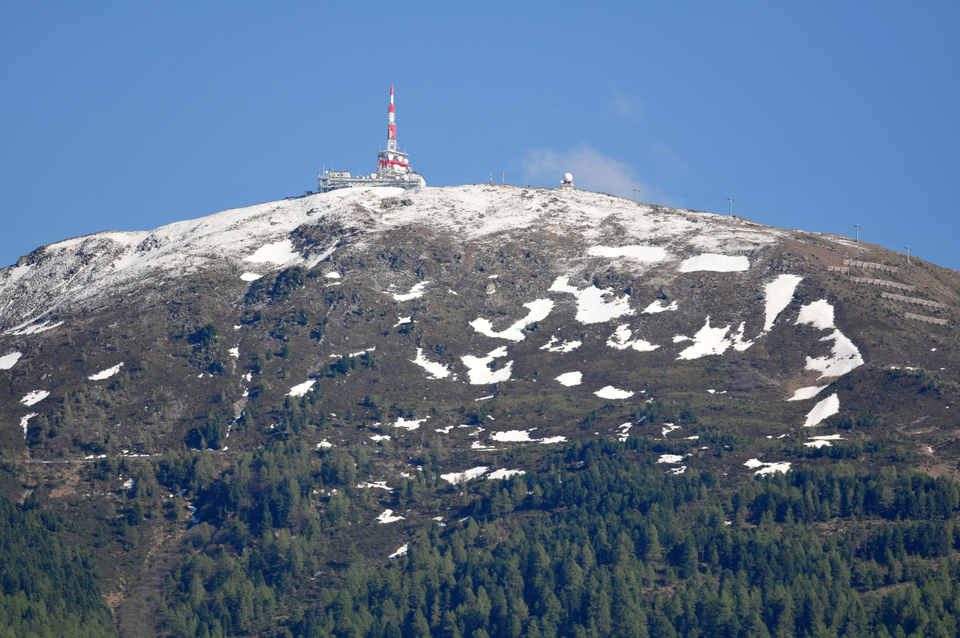 Patscherkofel